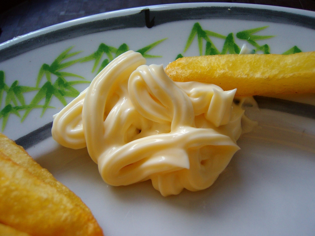 Zaanse mayonaise (mayonnaise from the Zaan district) and French fries